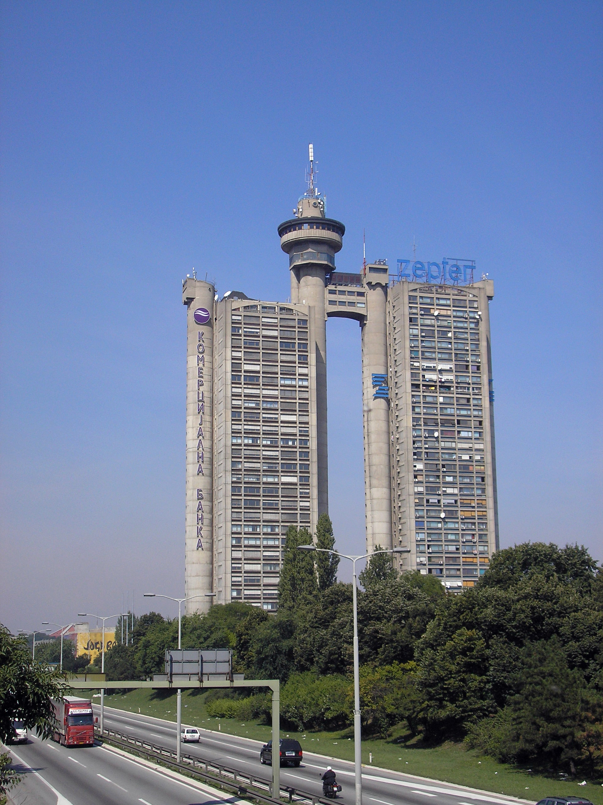 West Gate of Novi Beograd